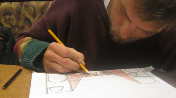 Artist drawing a picture